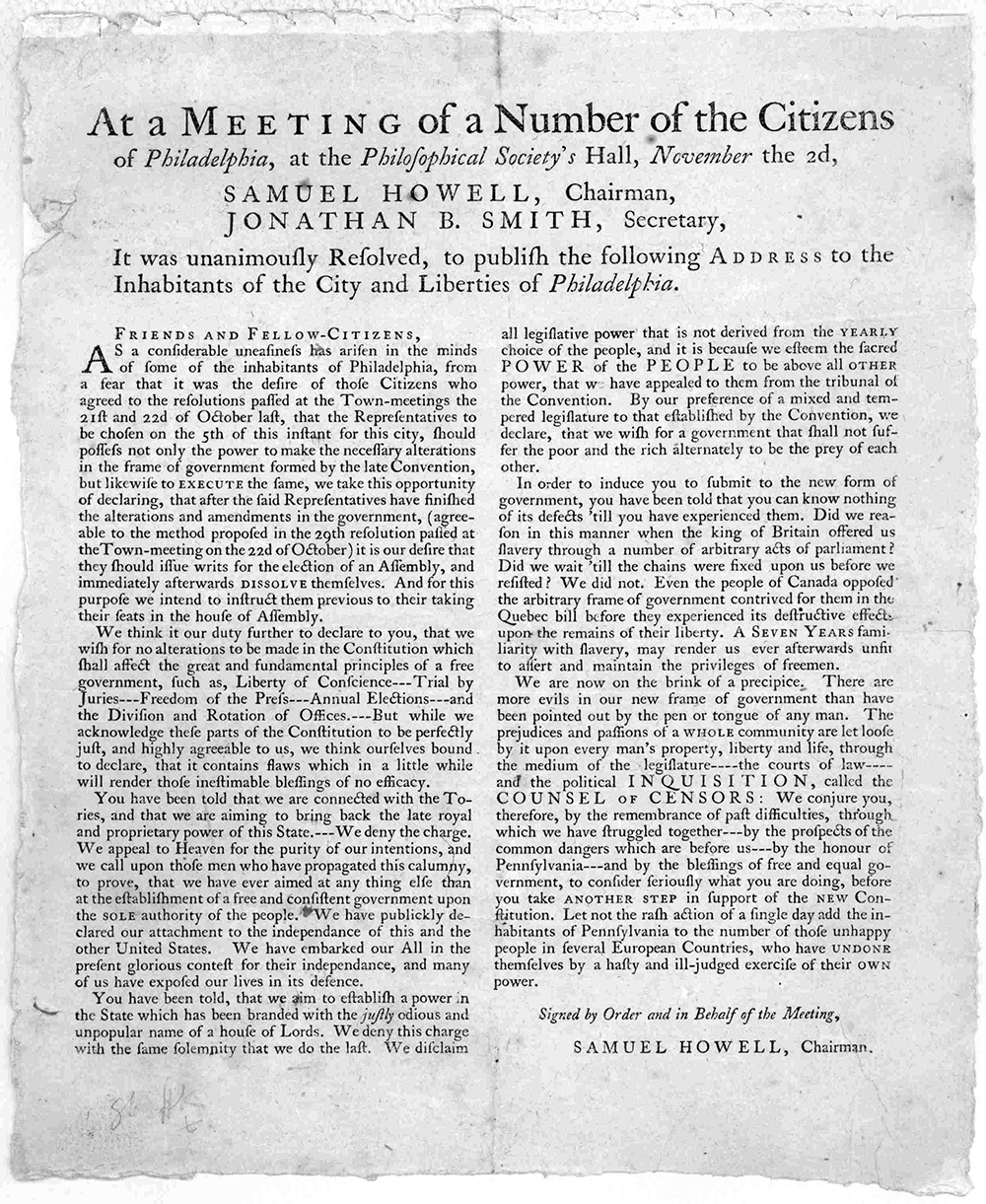 Broadside announcing that at a meeting of a number of the citizens of Philadelphia, at the Philosophical Society's Hall, November the 2d, Samuel Howell, chairman, Jonathan B. Smith, secretary : it was unanimously resolved, to publish the following address to the inhabitants of the city and liberties of Philadelphia. Signed: Signed by order and in behalf of the meeting, Samuel Howell, chairman.